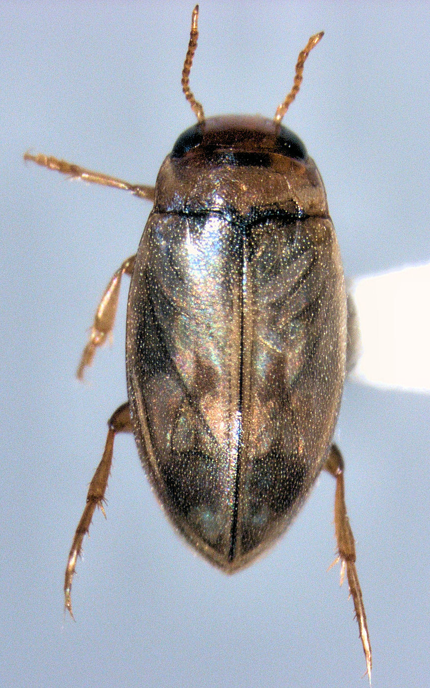 adult Allodessus bistrigatus